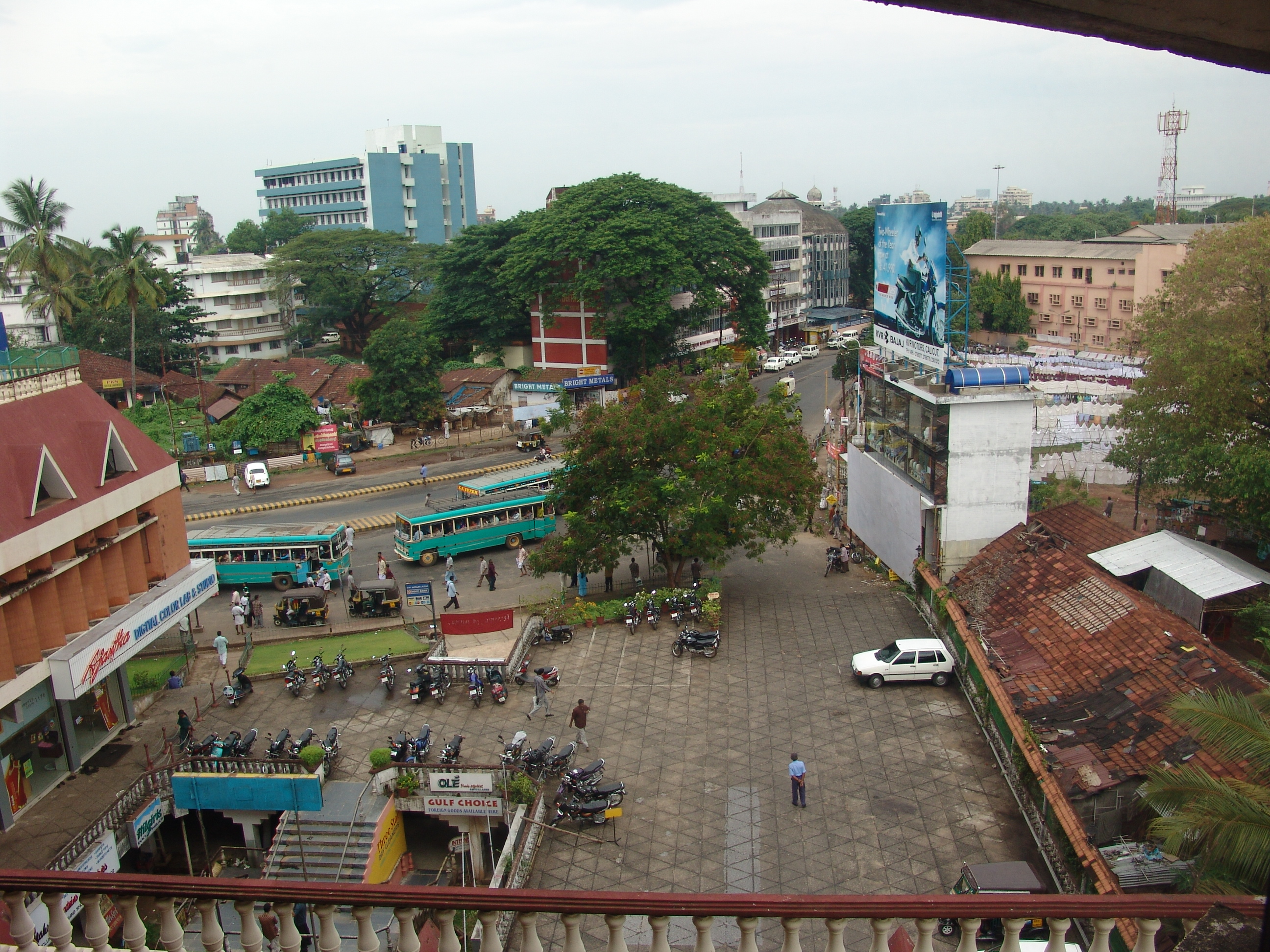 View of Kochi-Panavel Rd from Hotel Malabar Palace, Kozhikode, India (11.253 N, 75.784 E).